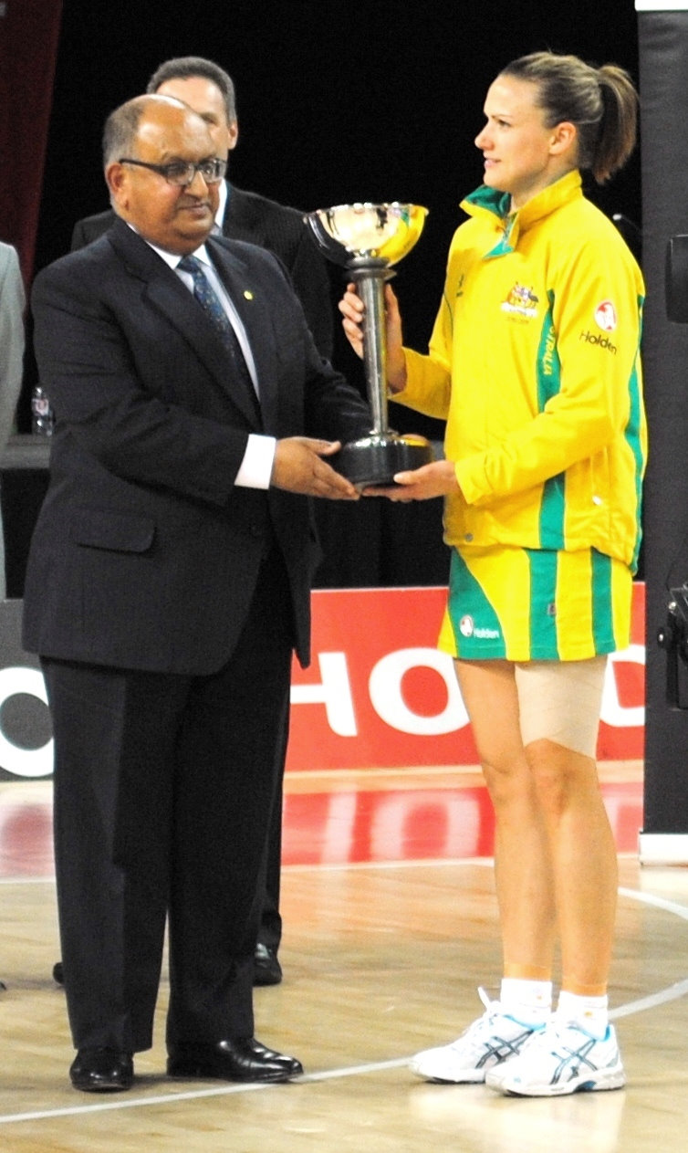 Constellation Cup Presentation. The Governor-General of New Zealand, Rt Hon Sir Anand Satyanand, presents the inaugural Constellation Cup to Australian Diamonds Captain Sharelle McMahon at Vector Arena, Auckland, New Zealand, 2010-09-04